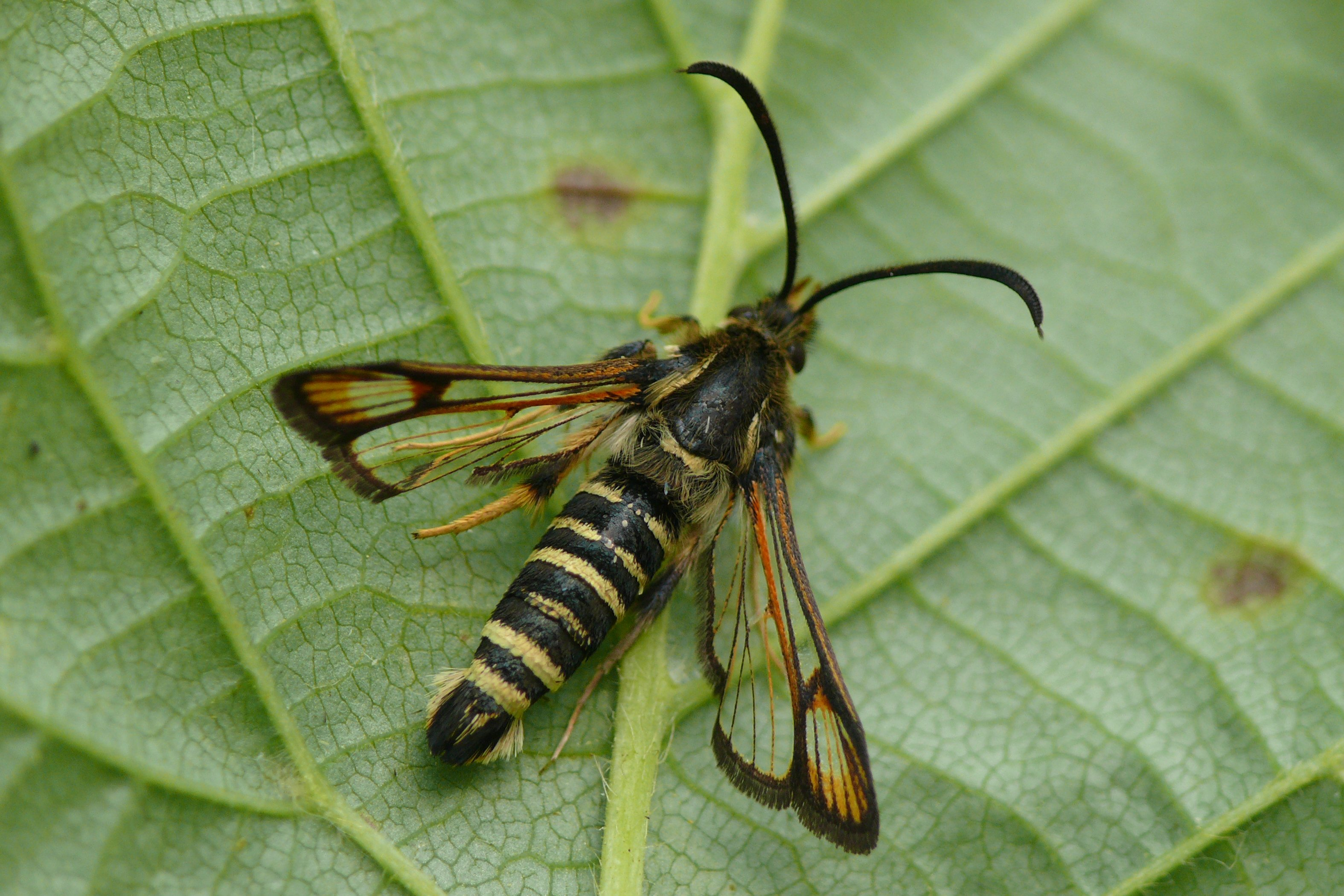 Six-belted Clearwing (Bembecia ichneumoniformis), male, picture taken at Allacher Haide, Munich, Germany